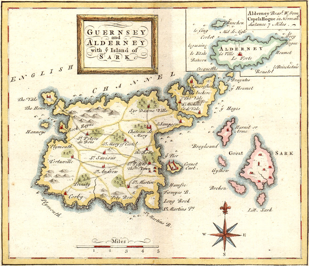 Guernsey and Alderney with Island of Sark, Channel Islands, British Isles